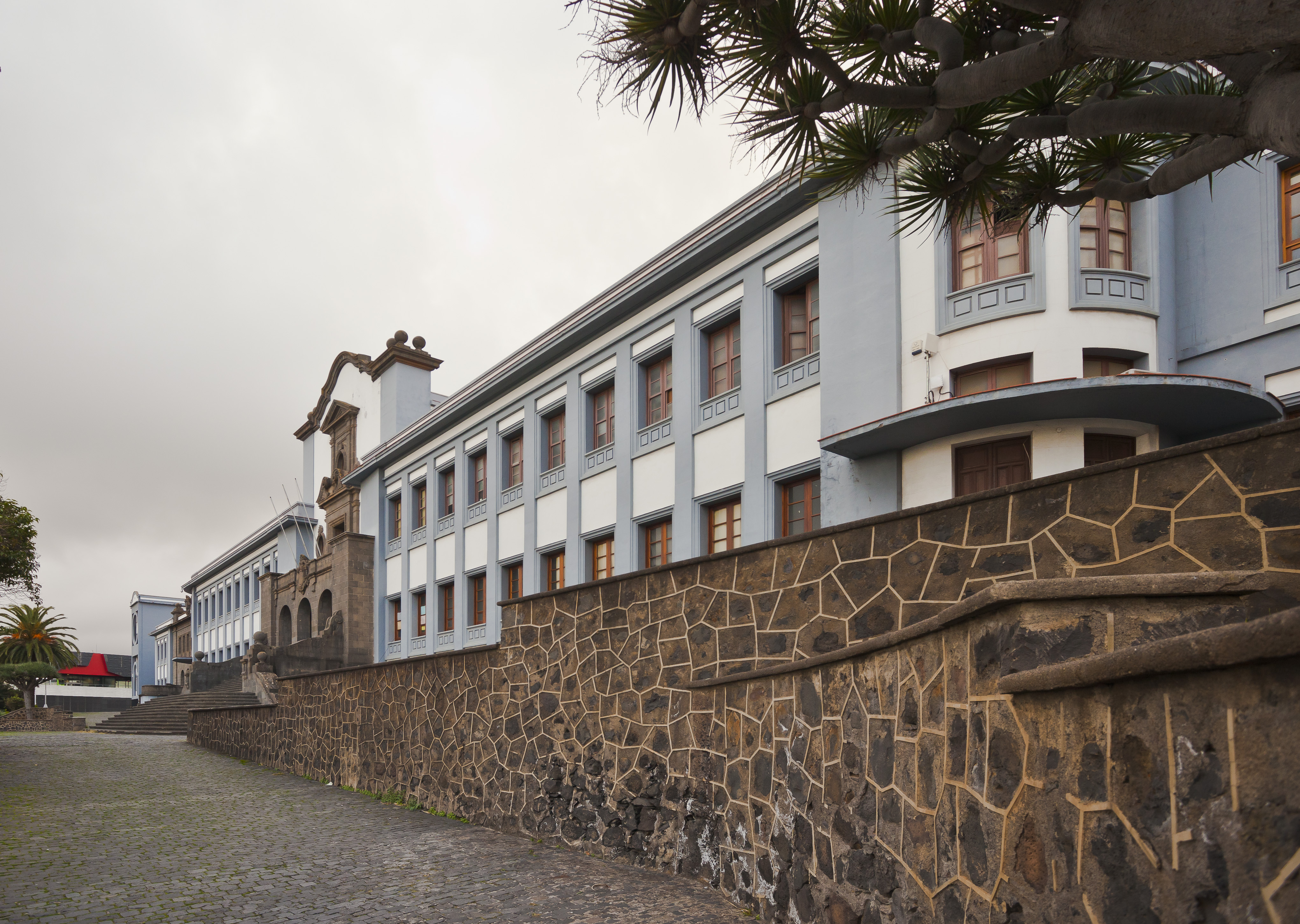 Pupils' services building, University of La Laguna, San Cristóbal de La Laguna, Tenerife, Spain